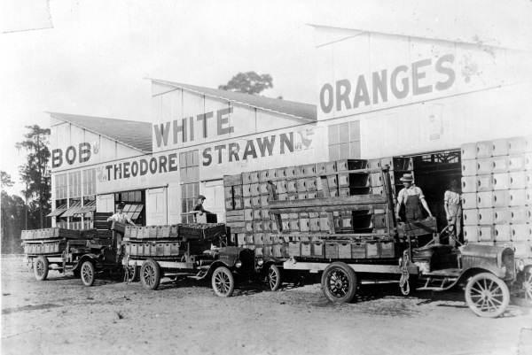 Historic black and white photo of the Strawn Packing House in DeLeon Springs, Florida.